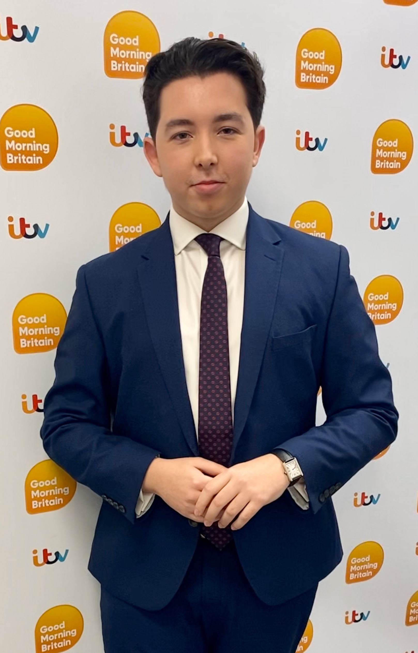 Ryan-Mark Parsons at Television Centre, London